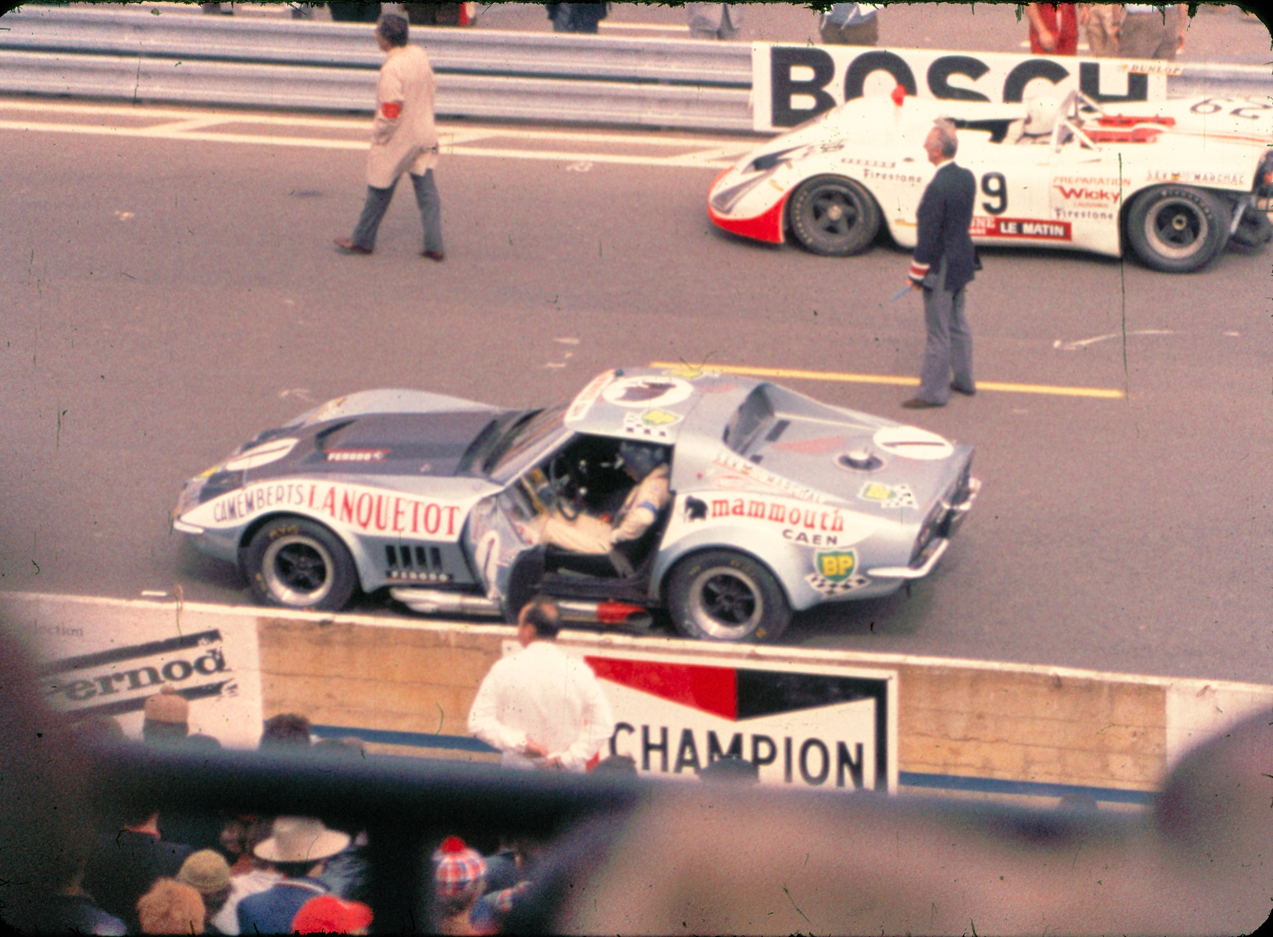 Chevrolet Corvette N°1 Ecurie Leopard Technique : Catégorie : GTS Moteur : V8 Chevrolet 6998 cm3 Pneus : Dunlop Pilotes : Jean Claude Aubriet Jean Pierre Rouget Porsche 908 / 02 N°29 Andre Wicky Racing Team Technique : Catégorie : SP Moteur : F8 Porsche 2997 cm3 Pneus : Firestone Pilotes : Andre Wicky Max Cohen Olivar